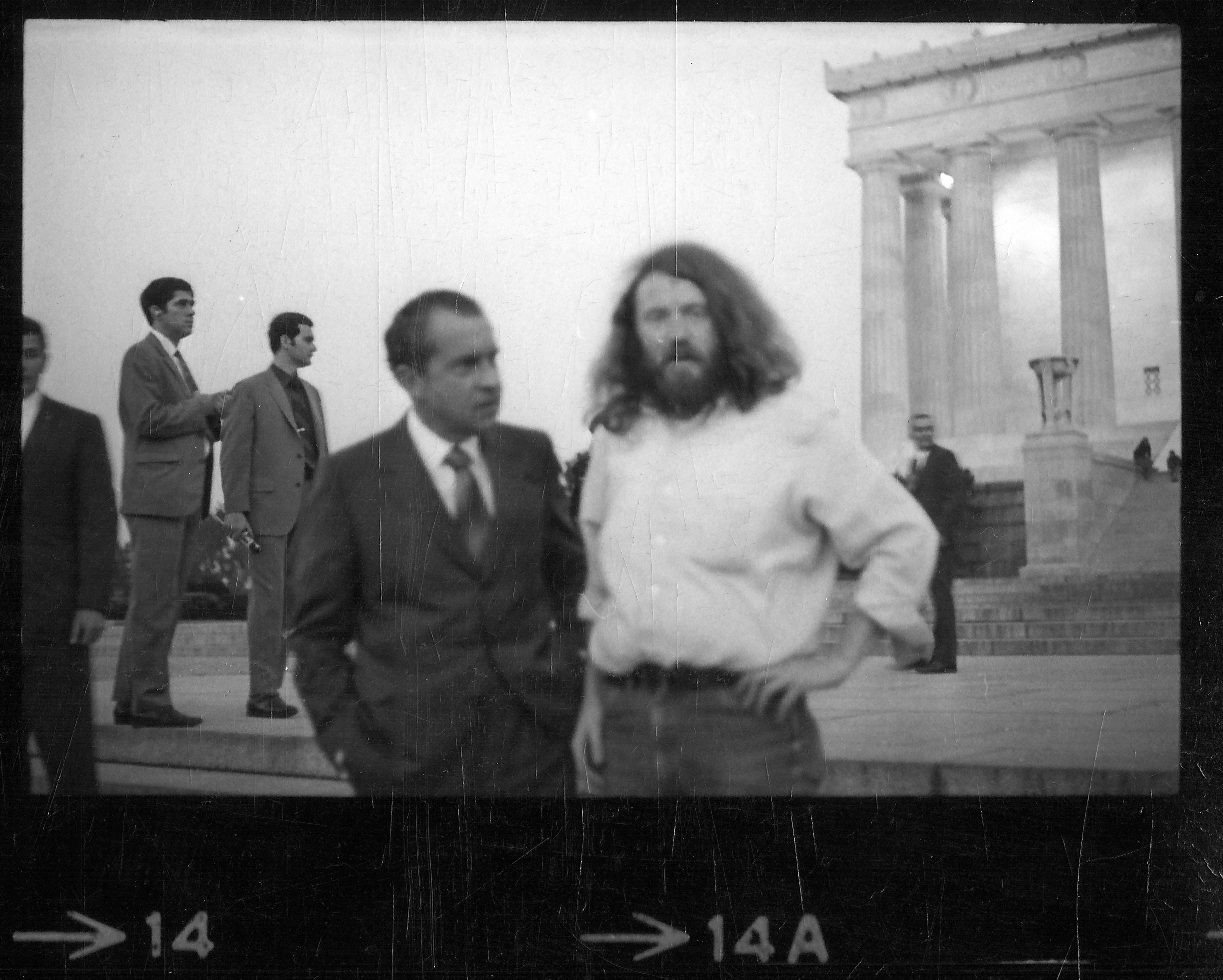 President Nixon with one of the student protestors at the Lincoln Memorial.